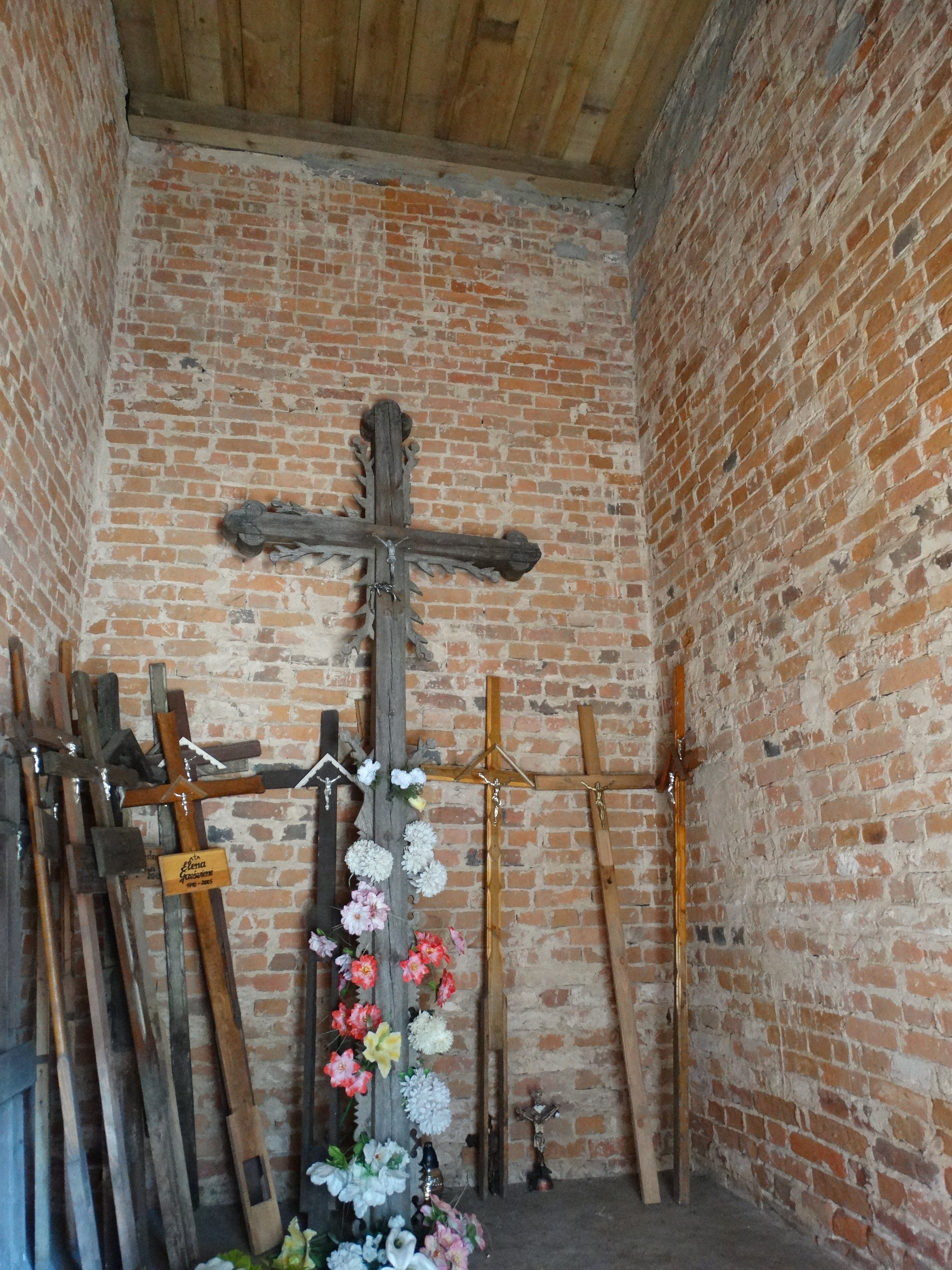 Chapel, Mažosios Vladikiškės, Kaišiadorys district, Lithuania